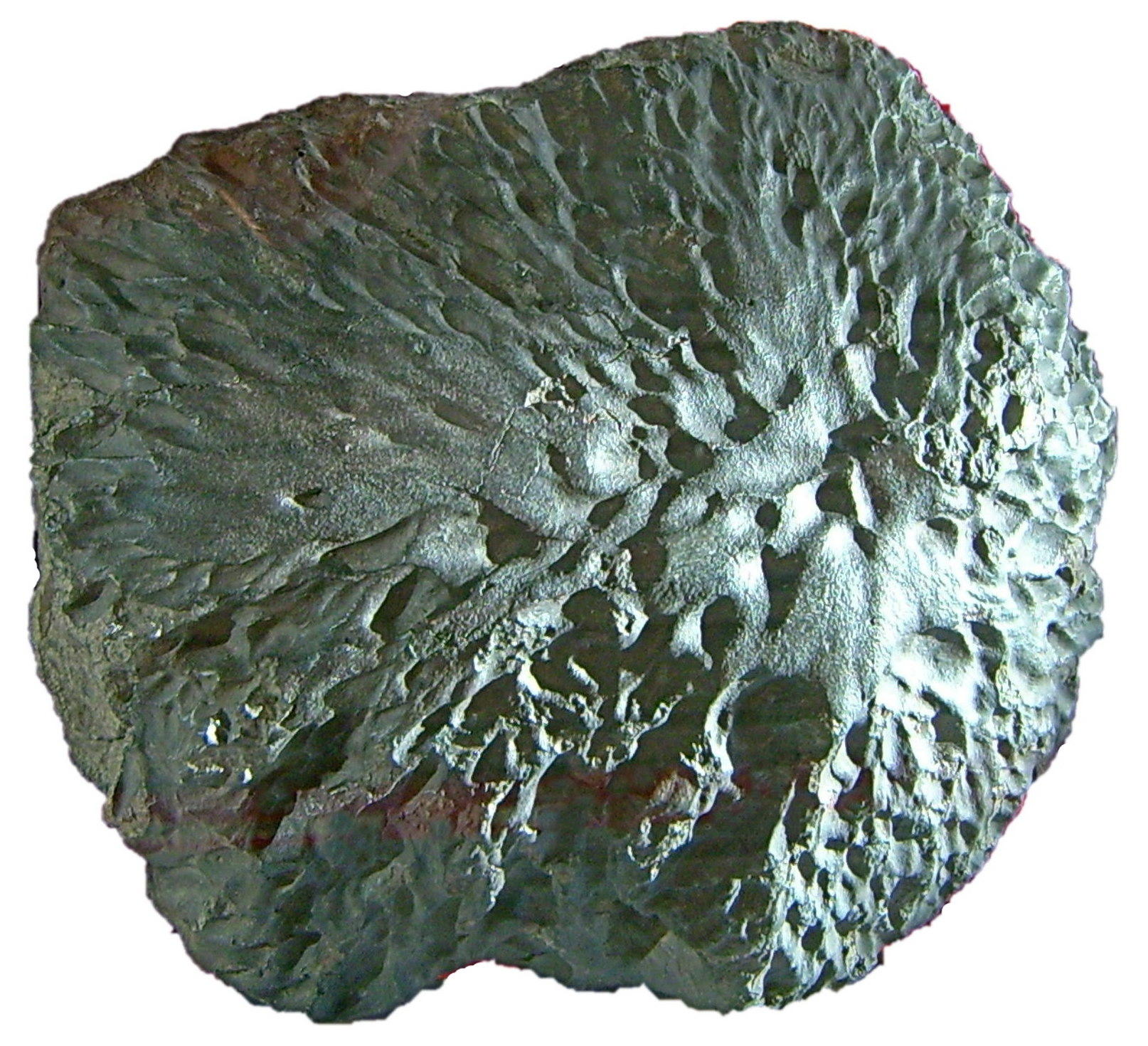 Krähenberg meteorite